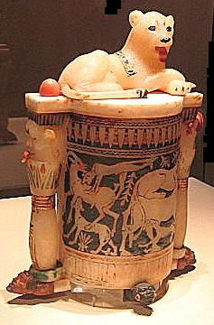 A cosmetic jar topped with a lioness, representing the goddess Bast, a burial artifact from the tomb of Tutankhamun dating from the eighteenth dynasty of Ancient Egypt, circa 1323 B.C. - Cairo Museum